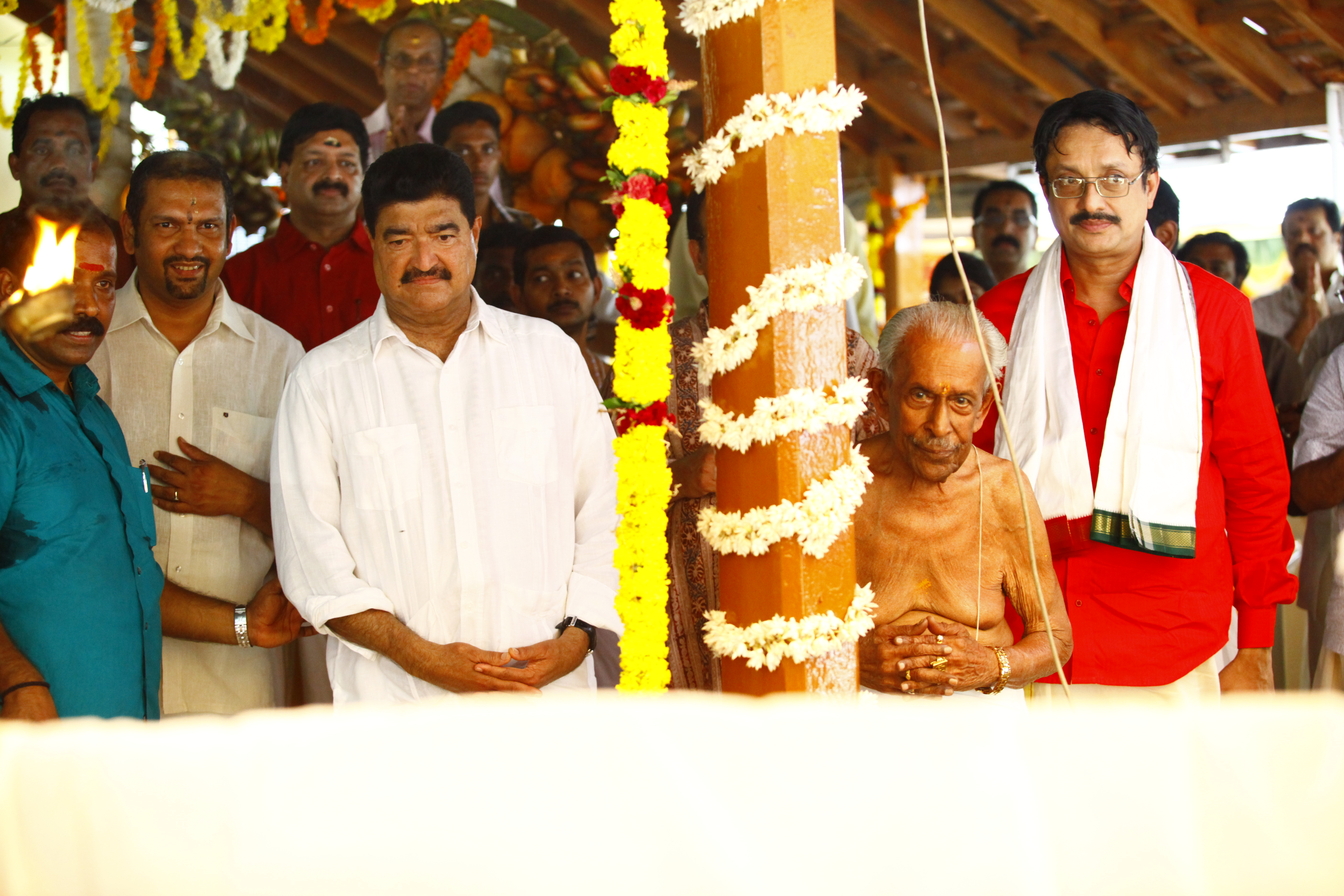 With Maharaja of Travancore and B.R.Shetty